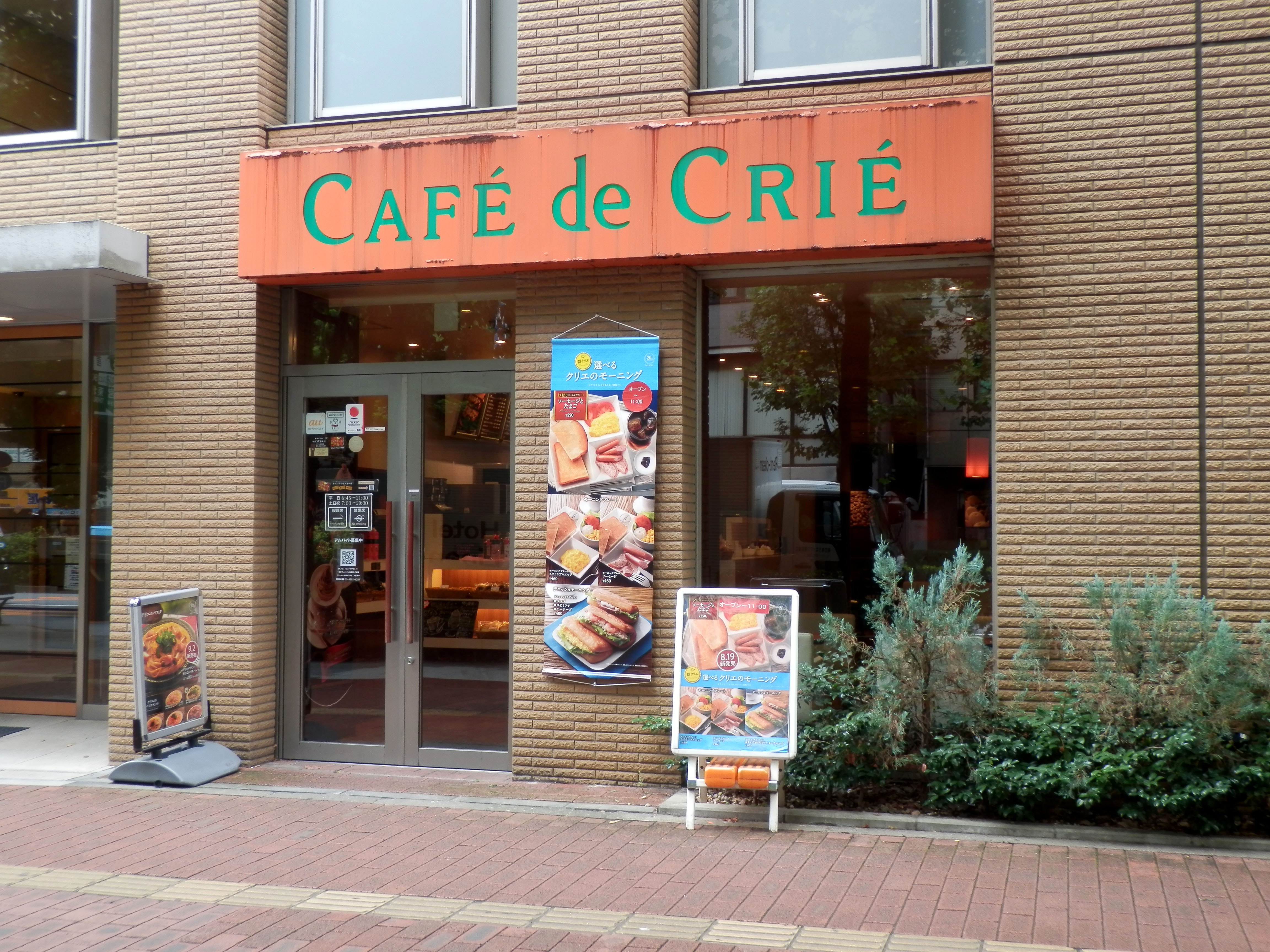 Café de Crié (Tokyo, Japan)